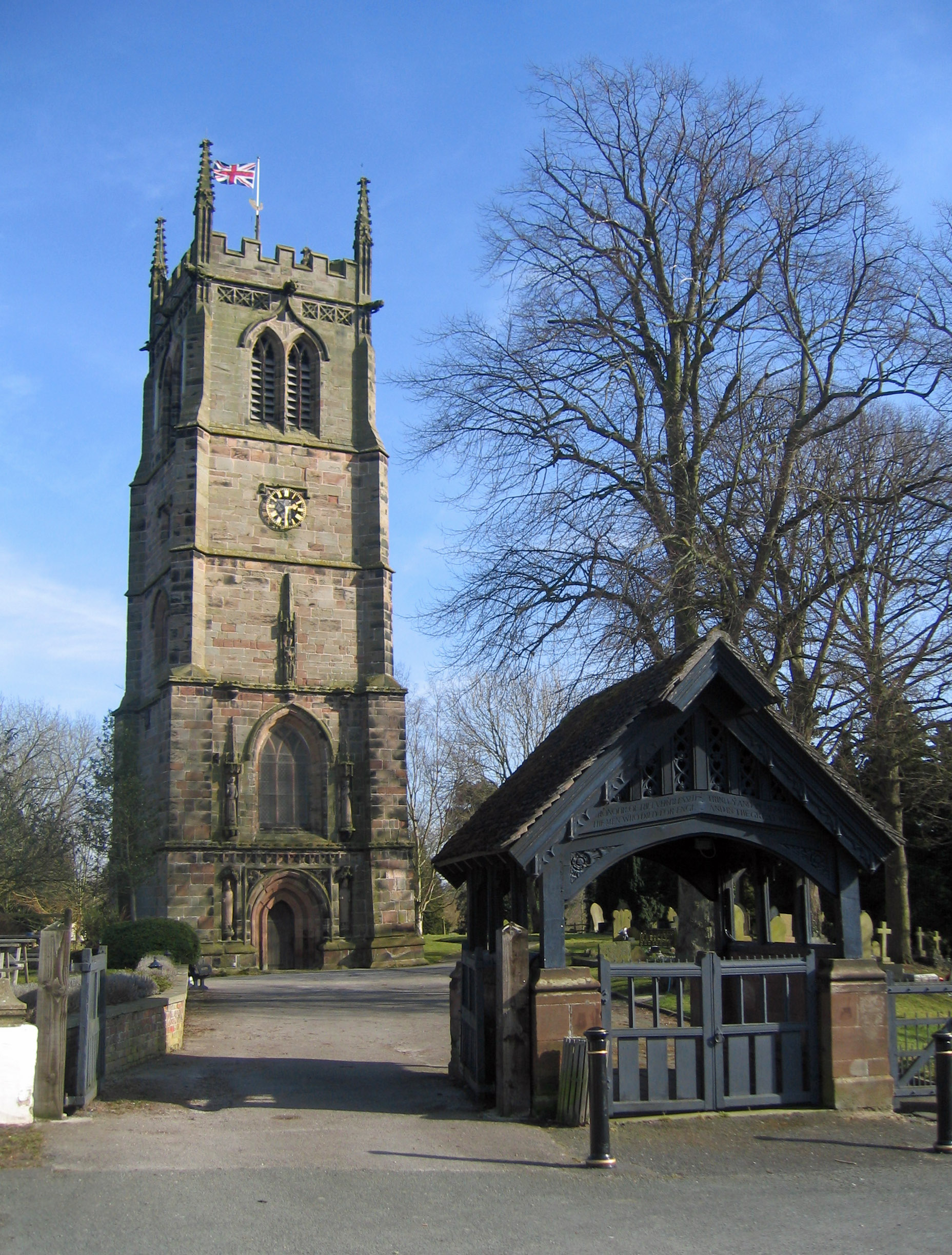 Tower and lych gate of the former St Chad's Church, Wybunbury, Cheshire, England